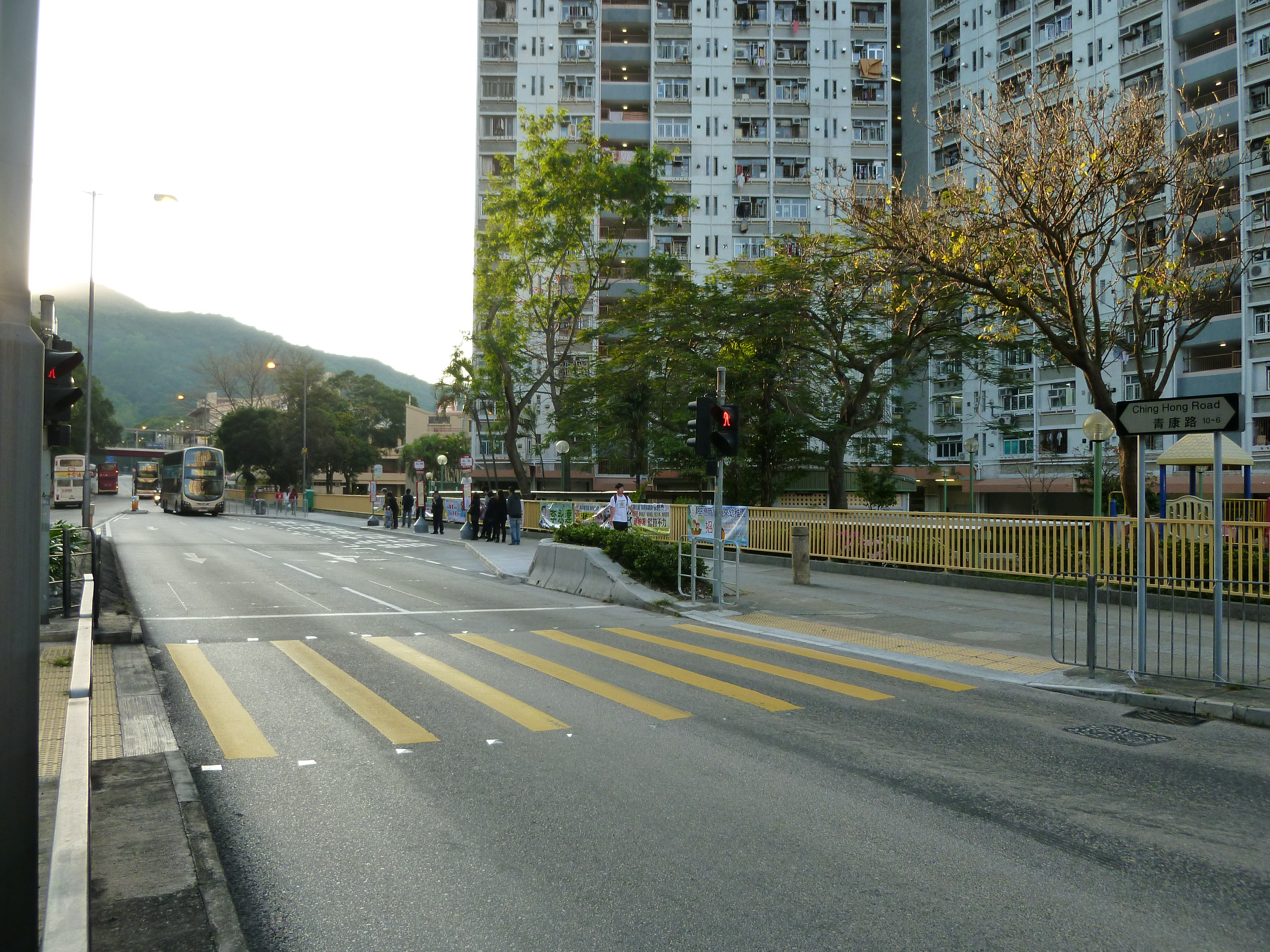 Ching Hong Road (Tsing Yi, Hong Kong)